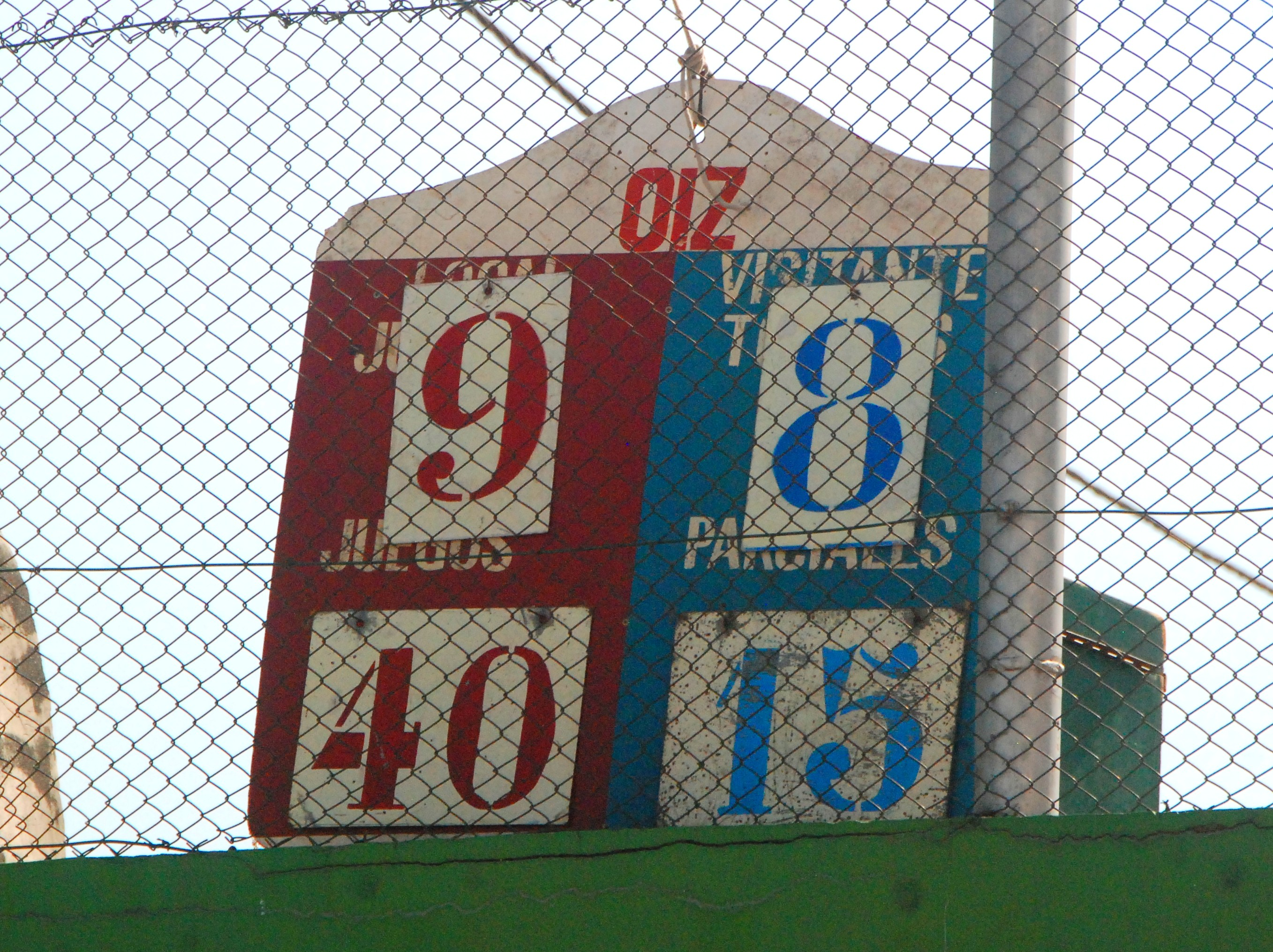 Marker in the Laxo ball game. Town of Oitz in the Malerreka region of Navarre, 2018.